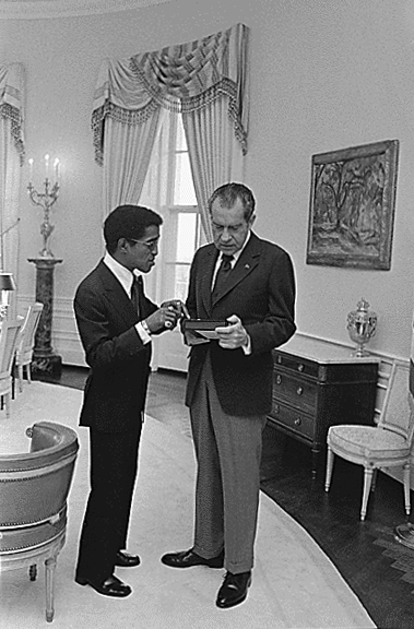 Richard Nixon meeting with Sammy Davis, Jr.